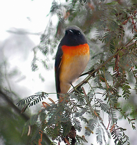 Small Minivet Pericrocotus cinnamomeus at Bharatpur, Rajasthan, India.